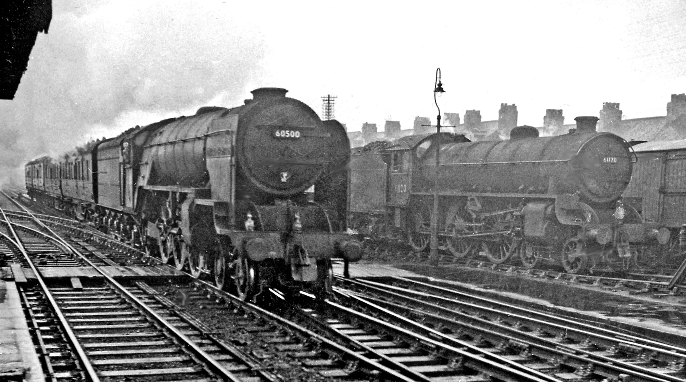 Up ECML parcels train entering Retford. View NW, towards Doncaster etc., on the GN ECML; sharply curving to the left is the connection to the GC line to Sheffield. The Up parcels is headed by A2/3 4-6-2 No. 60500, designed by Edward Thompson and turned out in 5/46 - and named after him on his retirement in 6/46. It was the first of a new series of Paciifics, following eight years after the last of Sir Nigel Gresley's celebrated series and lasted until 6/63. In the siding is Thompson B1 4-6-0 No. 61120 (built 1/47, withdrawn 1/65).